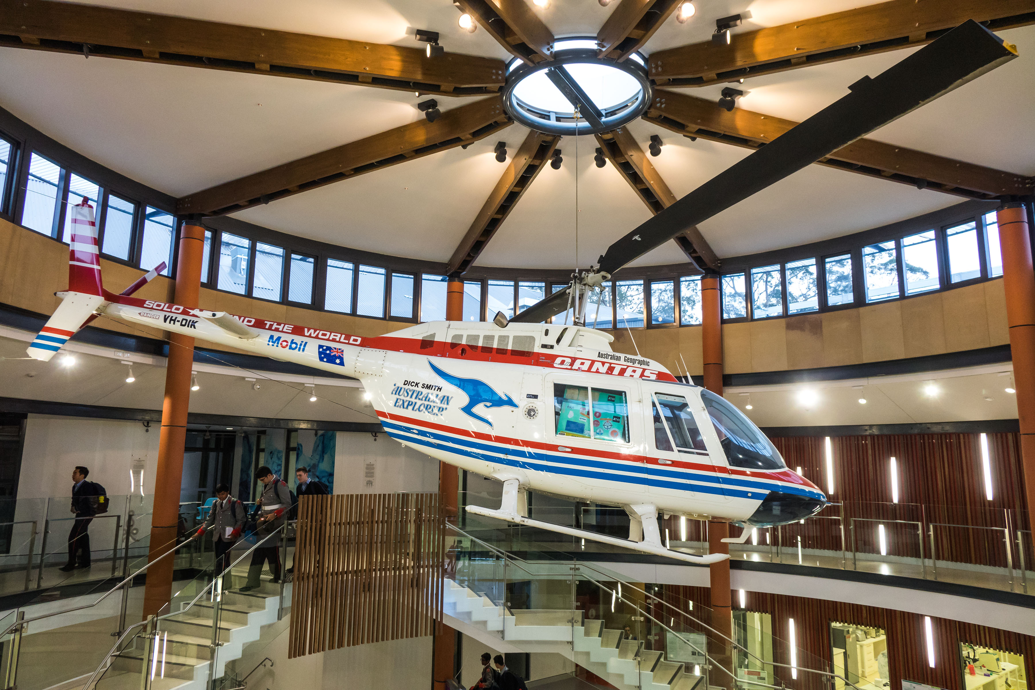 The King's School's Science Centre.